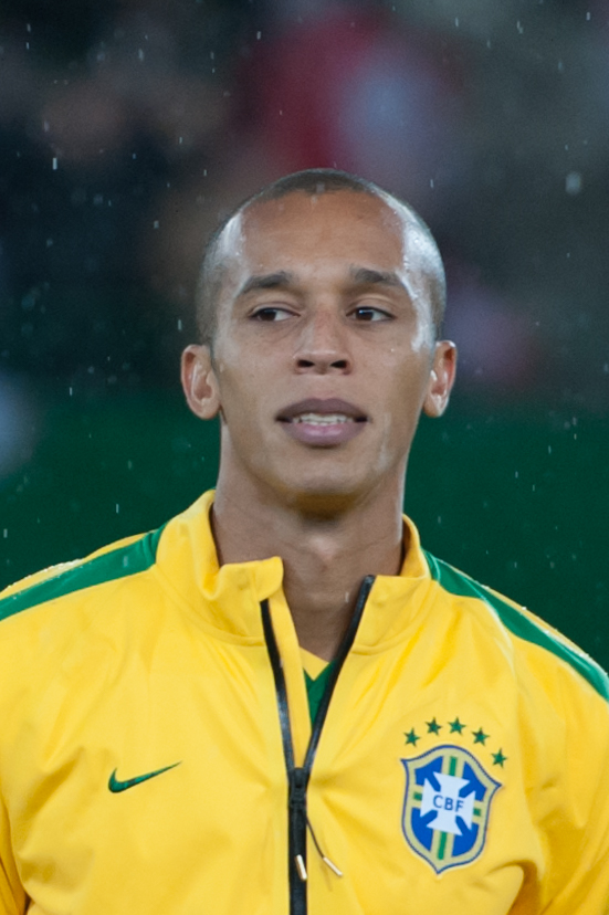 International Friendly Austria - Brazil November 18, 2014: Miranda